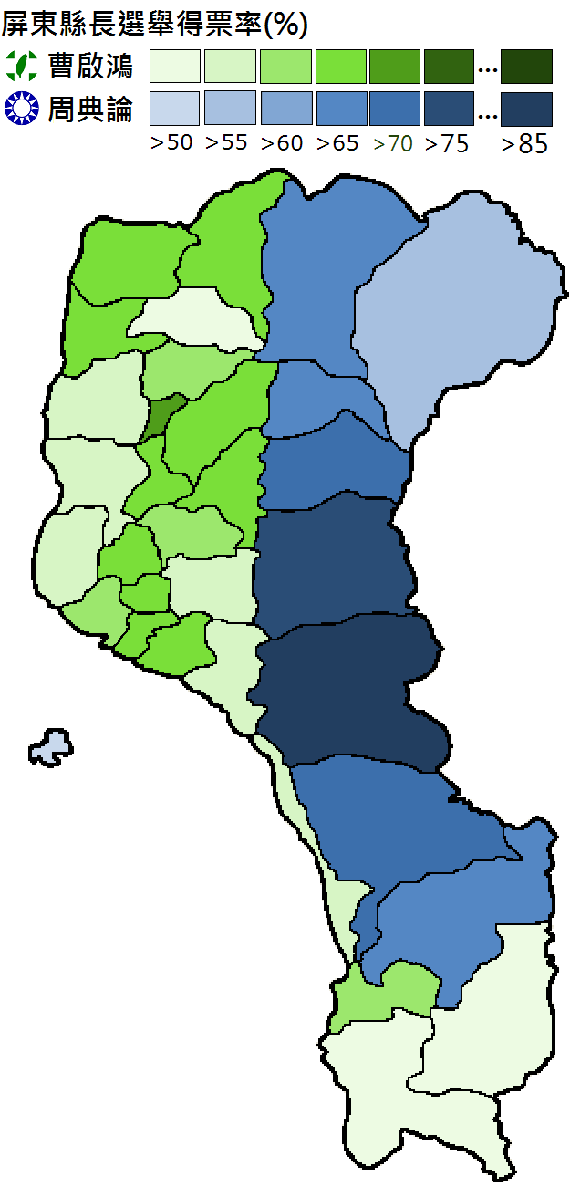 Pingtung magistrate election 2009